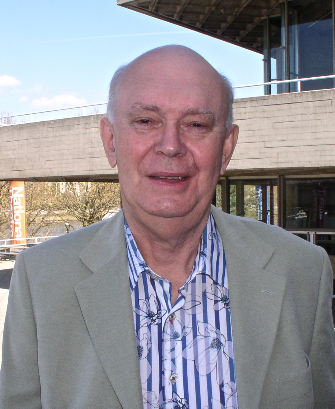 Sir Alan Ayckbourn was lunching with Critics' Circle members at the National Theatre on 22 April 2010, on the occasion of the presentation of the Critics' Circle annual award